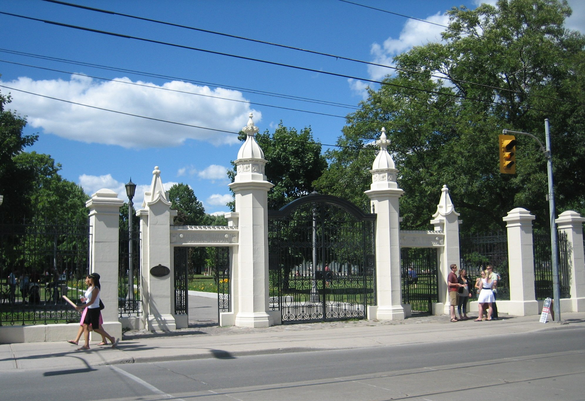 Gates at the entrance to Trinity Bellwoods Park